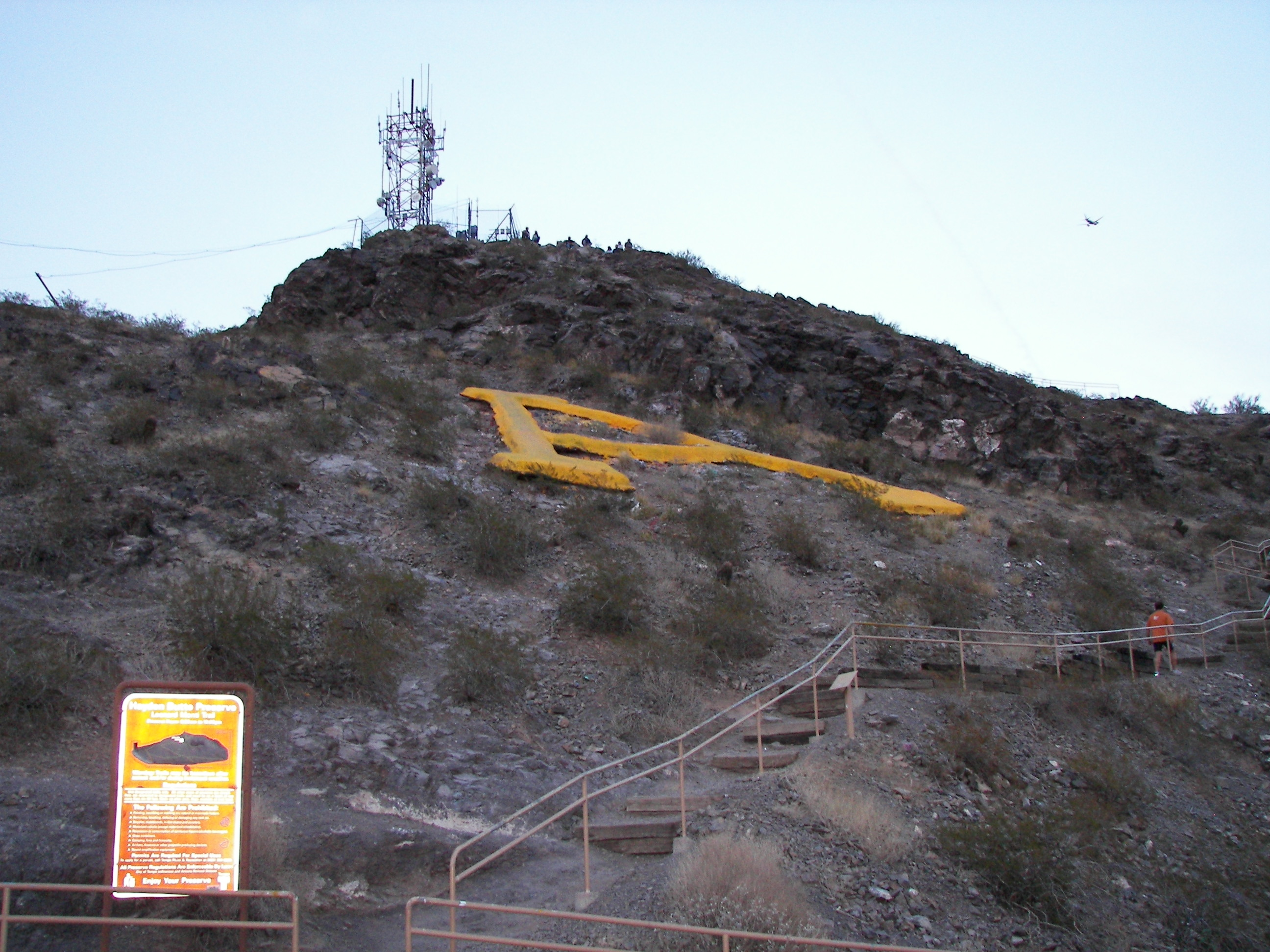 A Mountain photograph